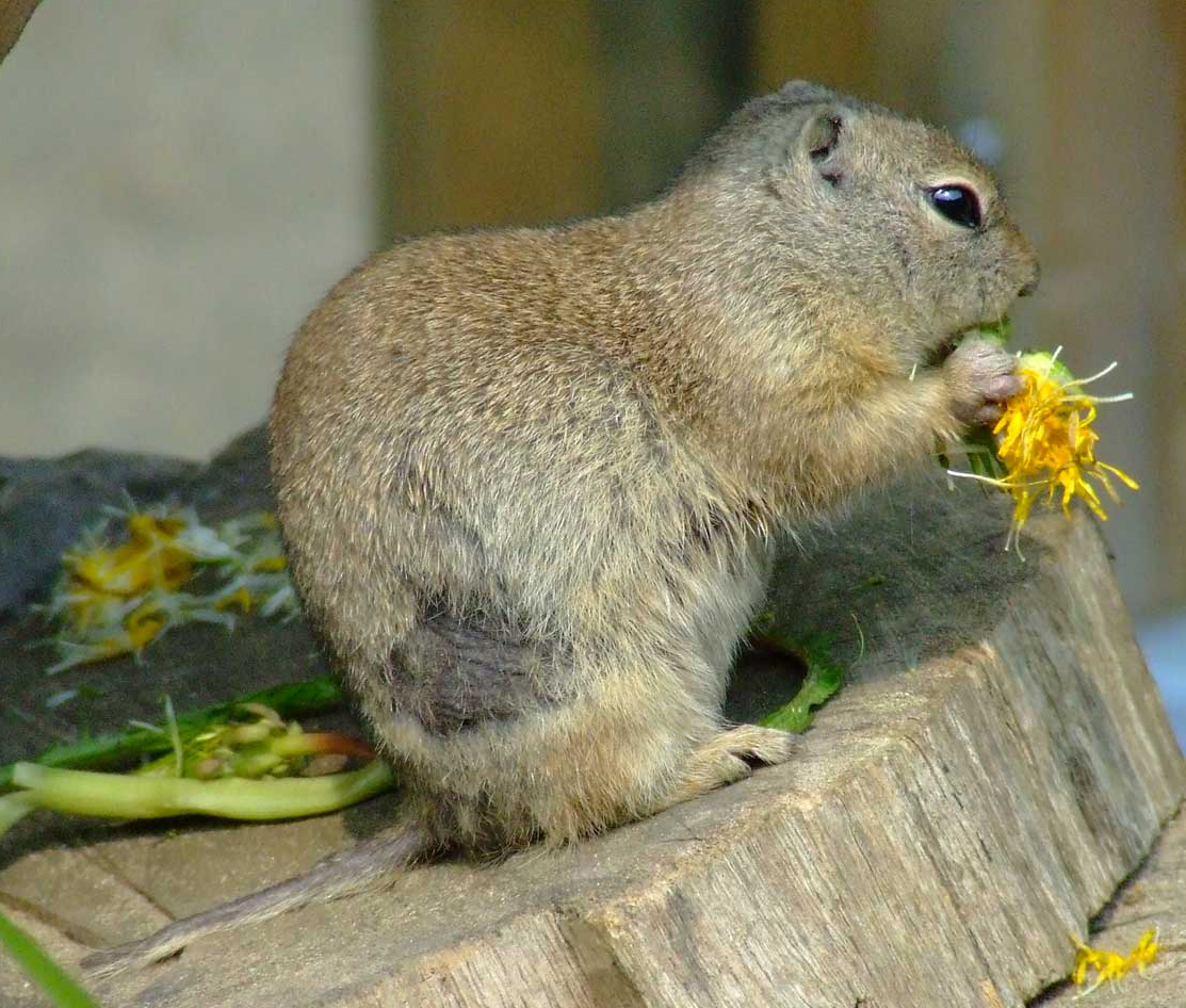 Richardson's ground squirrel (Urocitellus richardsonii)